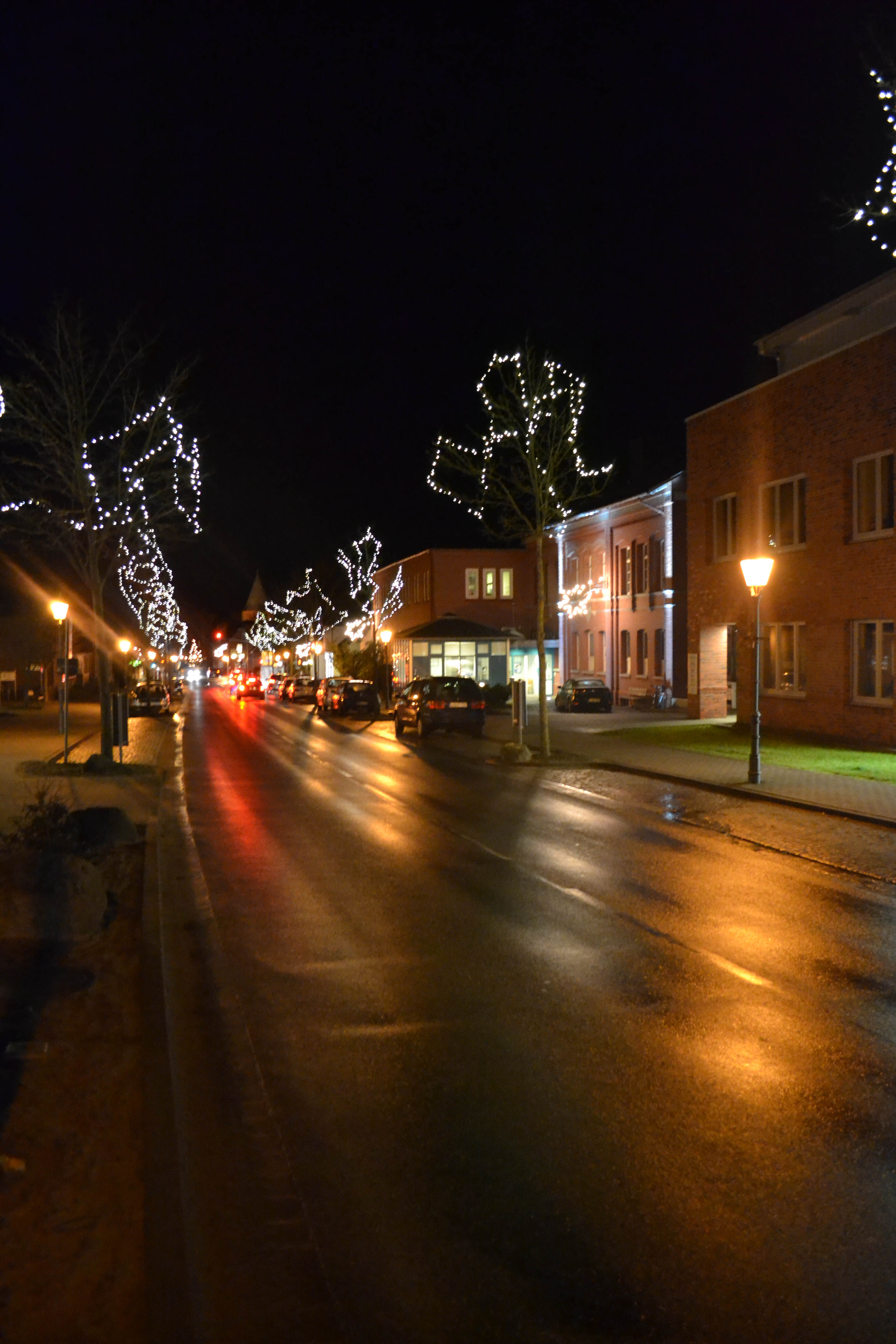 Christmas decoration in Salzhausen, Landkreis Harburg, Lower Saxony, Germany.